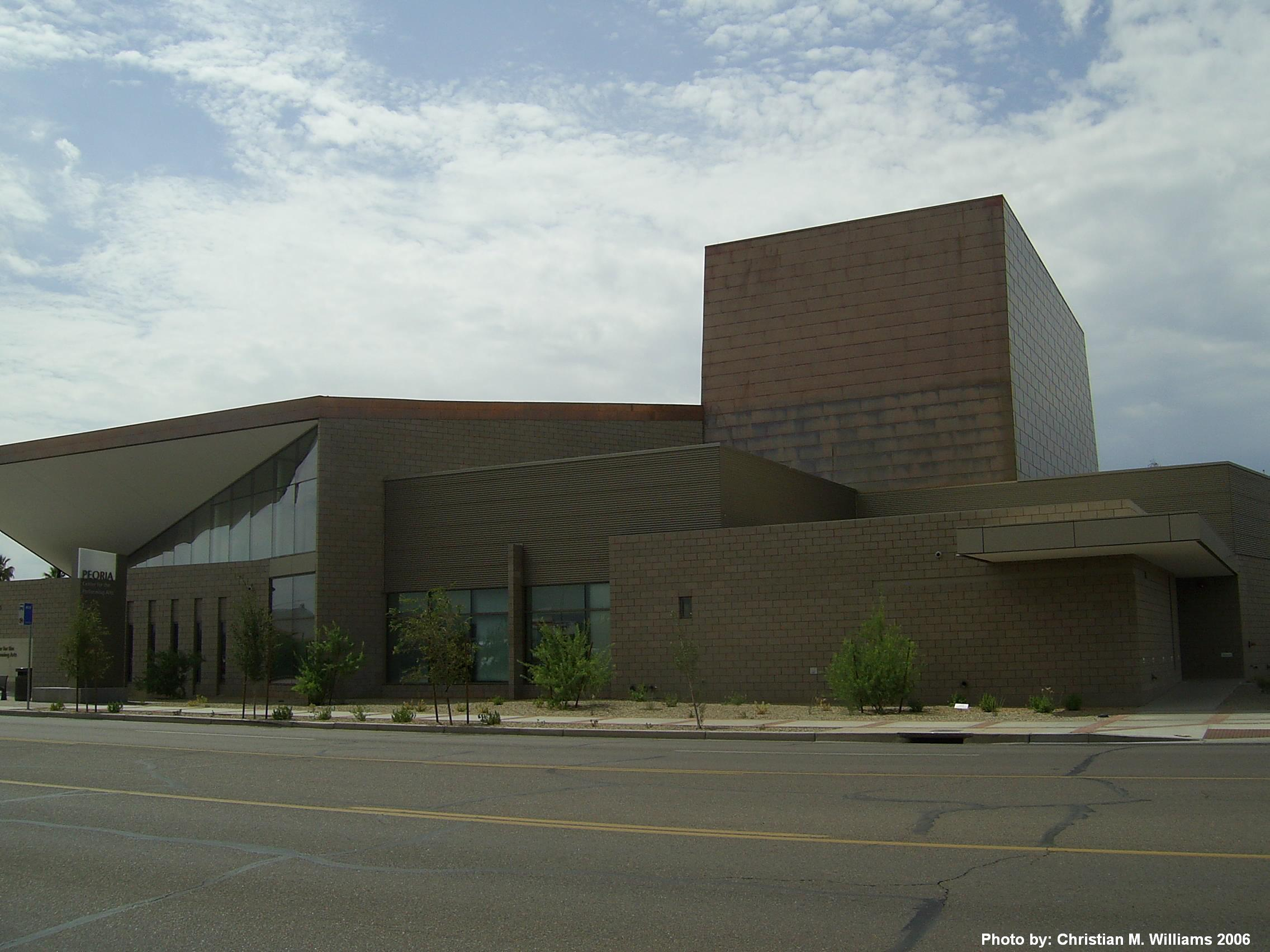 Peoria Center for the Performing Arts taken from Peoria Avenue in Summer 2006 by Christian M. Williams.